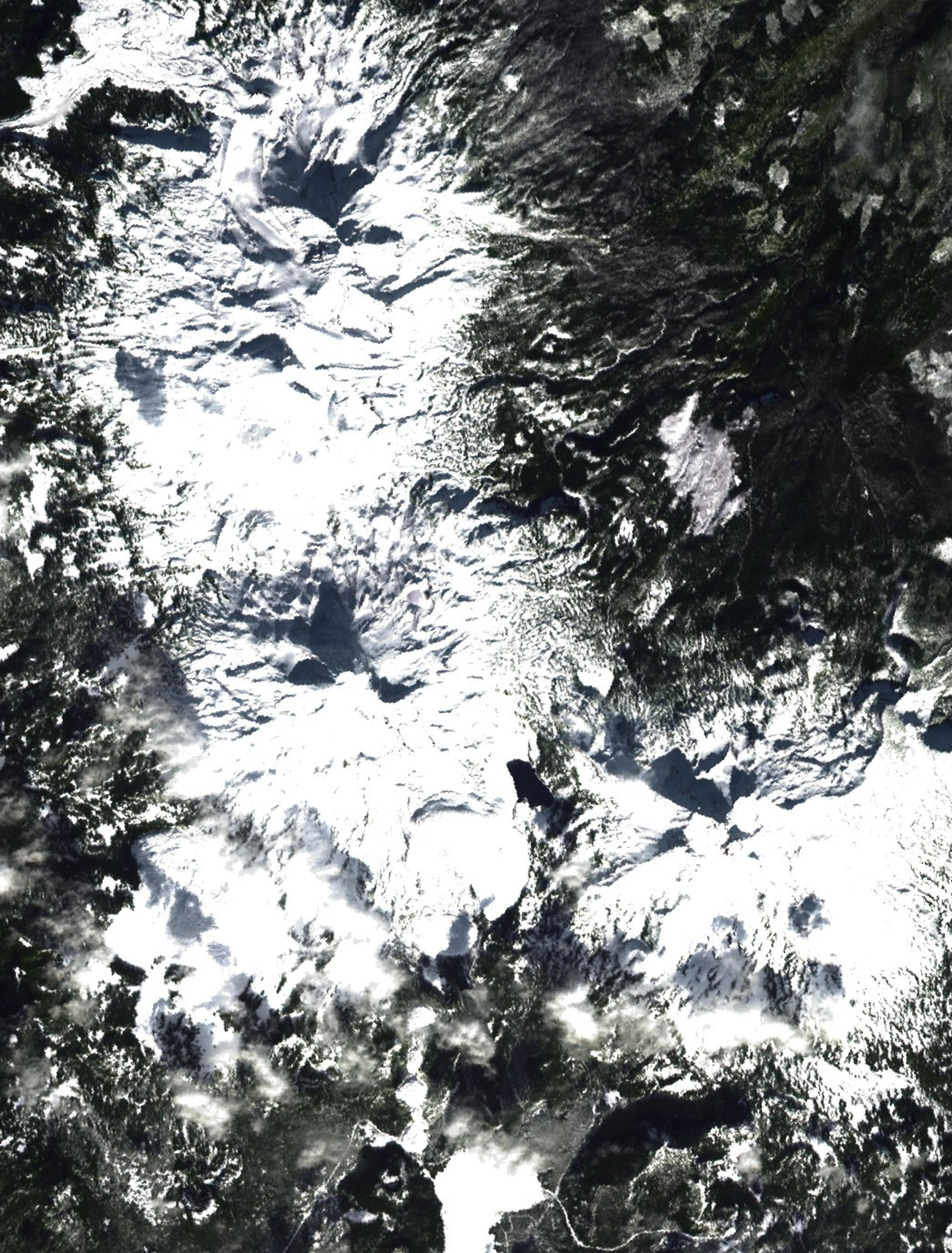 Satellite image of Three Sisters. Approximate geographic limits of the image : * N : 44.2 * S : 44.03 * E : -121.64 * W : -121.8 Projection : conique conforme de Lambert, méridien central -121.745, 1er/2nd parallèles : 43 / 45.5 (+proj=lcc +lat_1=43 +lat_2=45.5 +lat_0=41.75 +lon_0=-121.745 +x_0=400000 +y_0=0 +ellps=GRS80 +towgs84=0,0,0,0,0,0,0 +units=m +no_defs) ; système géodésique NAD83